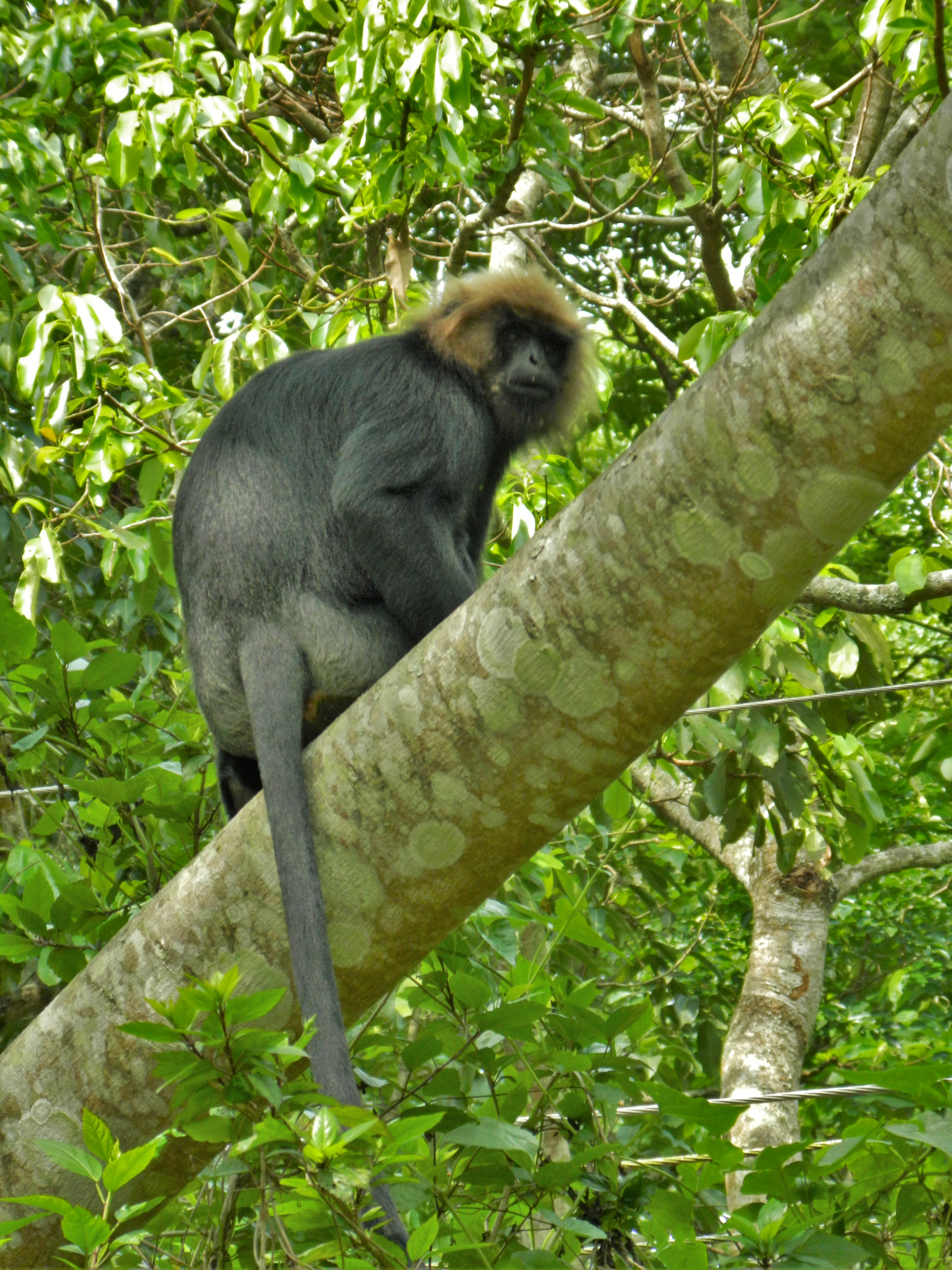 Nilgiri Langur in the Periyar National Park and Wildlife Sanctuary, Kerala, India